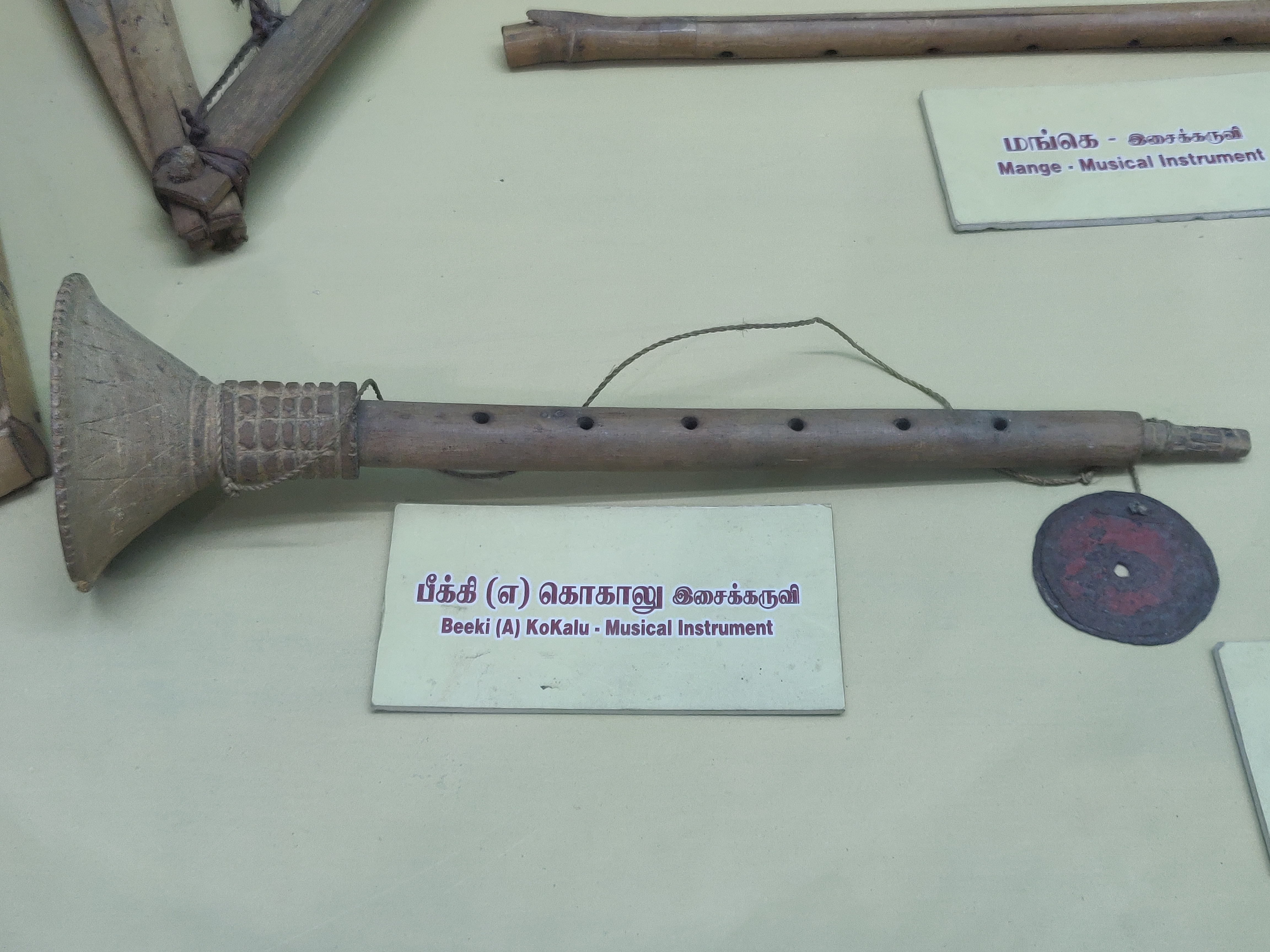 Exhibits in Government Museum, Coimbatore. Beeki (A) KoKalu - Musical instrument